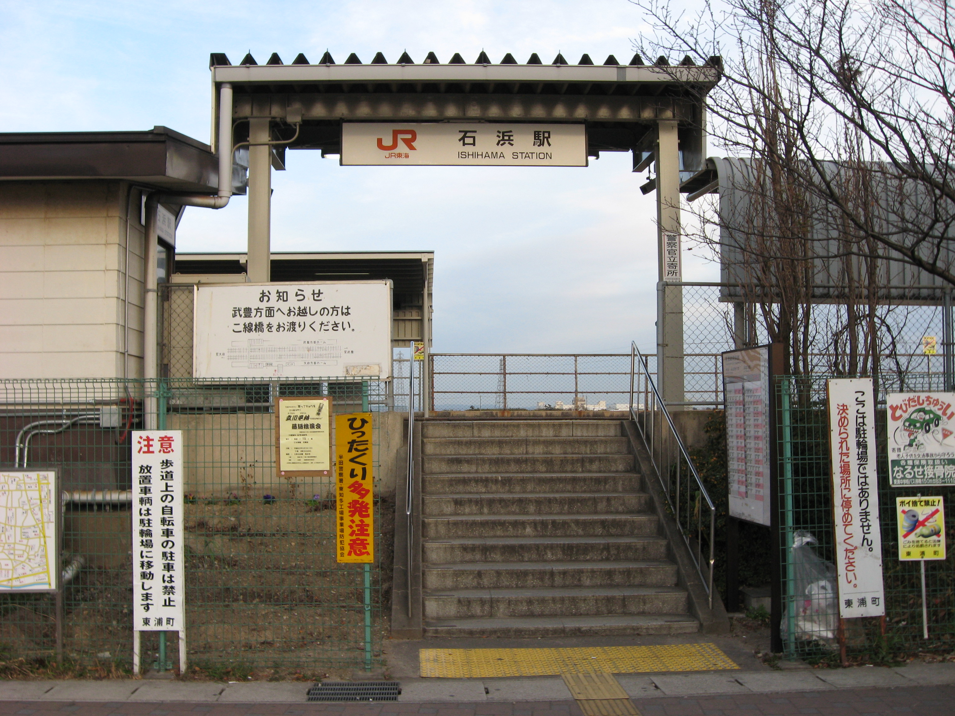 JR Central Taketoyo Line Ishihama Station Entrance